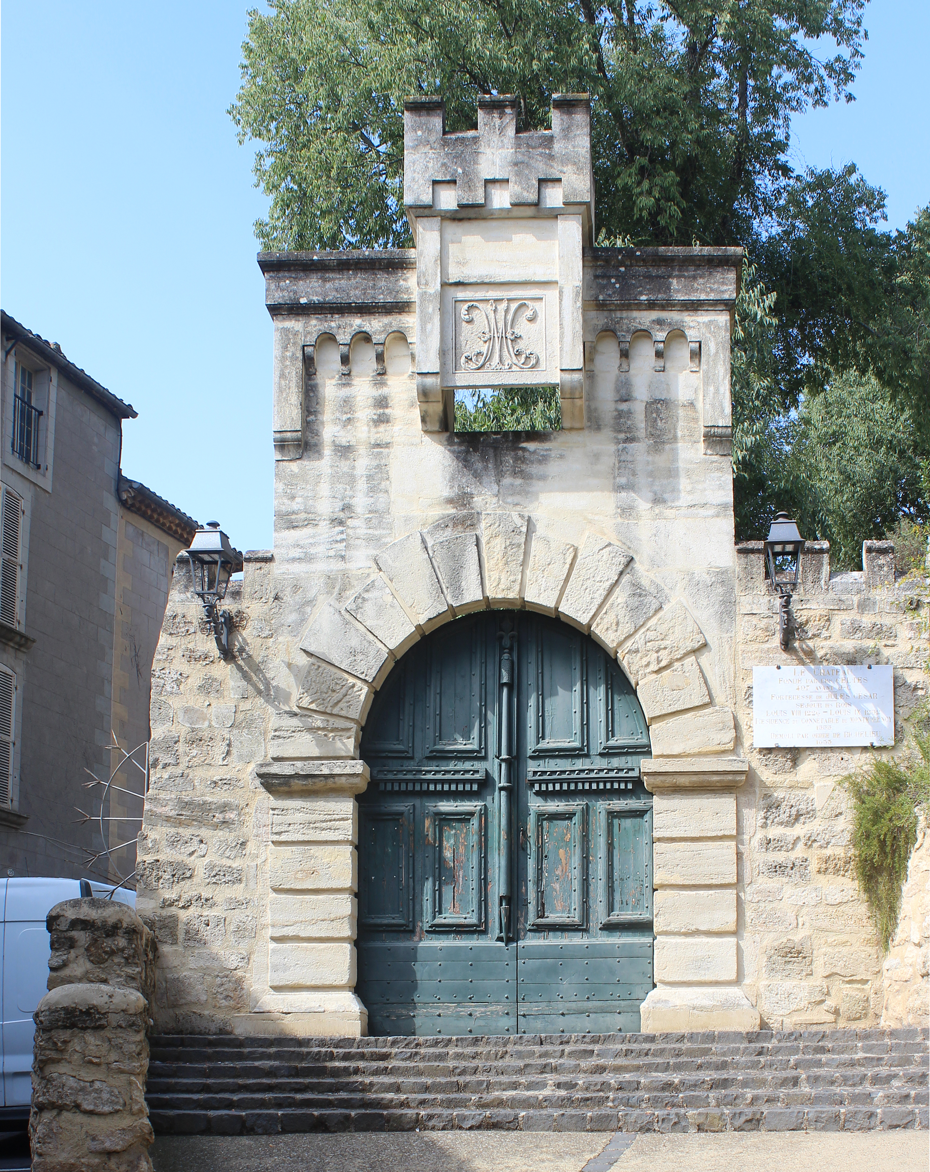 Gateway to the Château de Pézenas. Construction of the château started in 1262 and was rebuilt in 1563. The château was demolished by Cardinal Richelieu in 1632 and only the gateway remains.